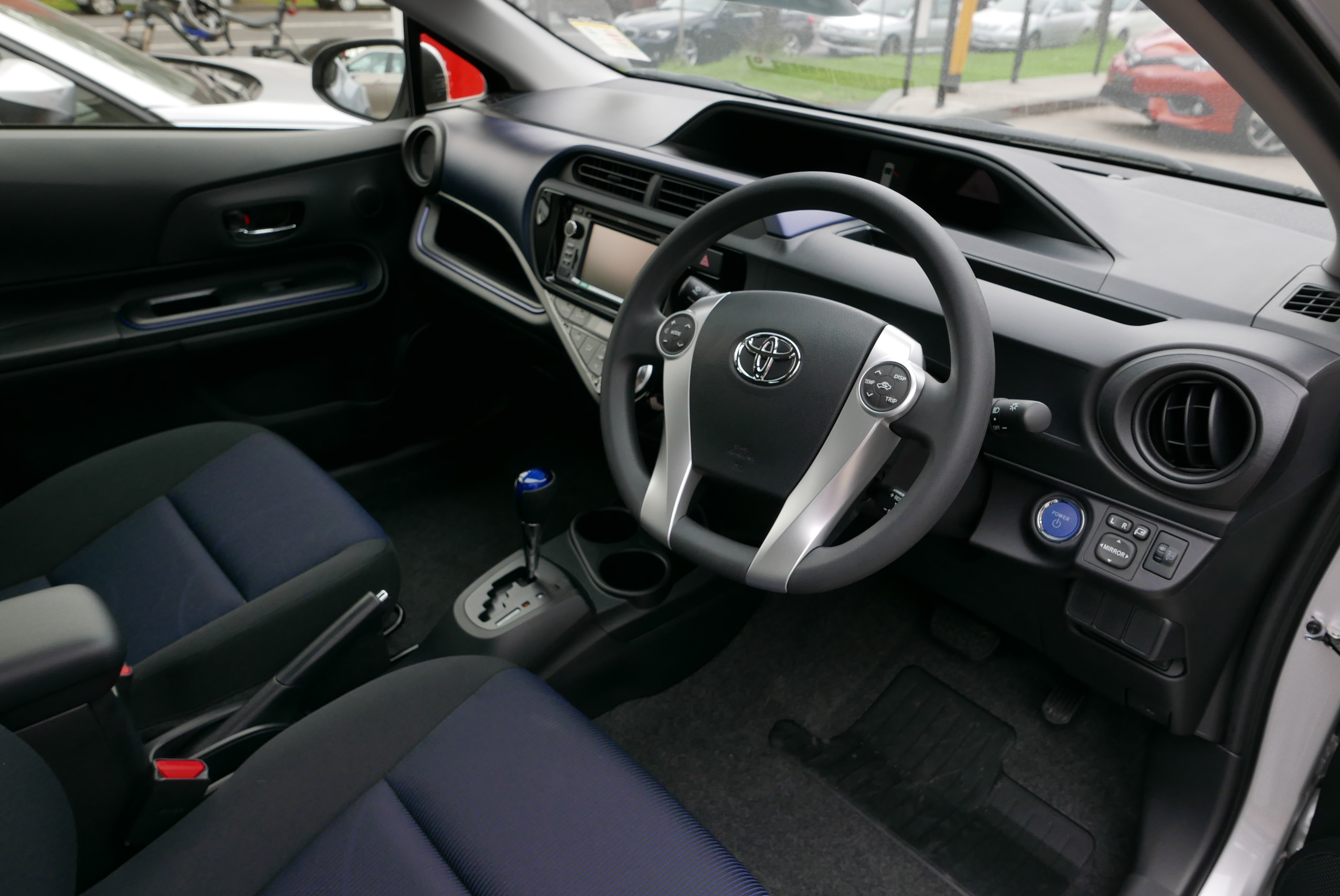 2015 Toyota Prius c (NHP10R MY15) hatchback. Photographed at South Melbourne Toyota, Southbank, Victoria, Australia.